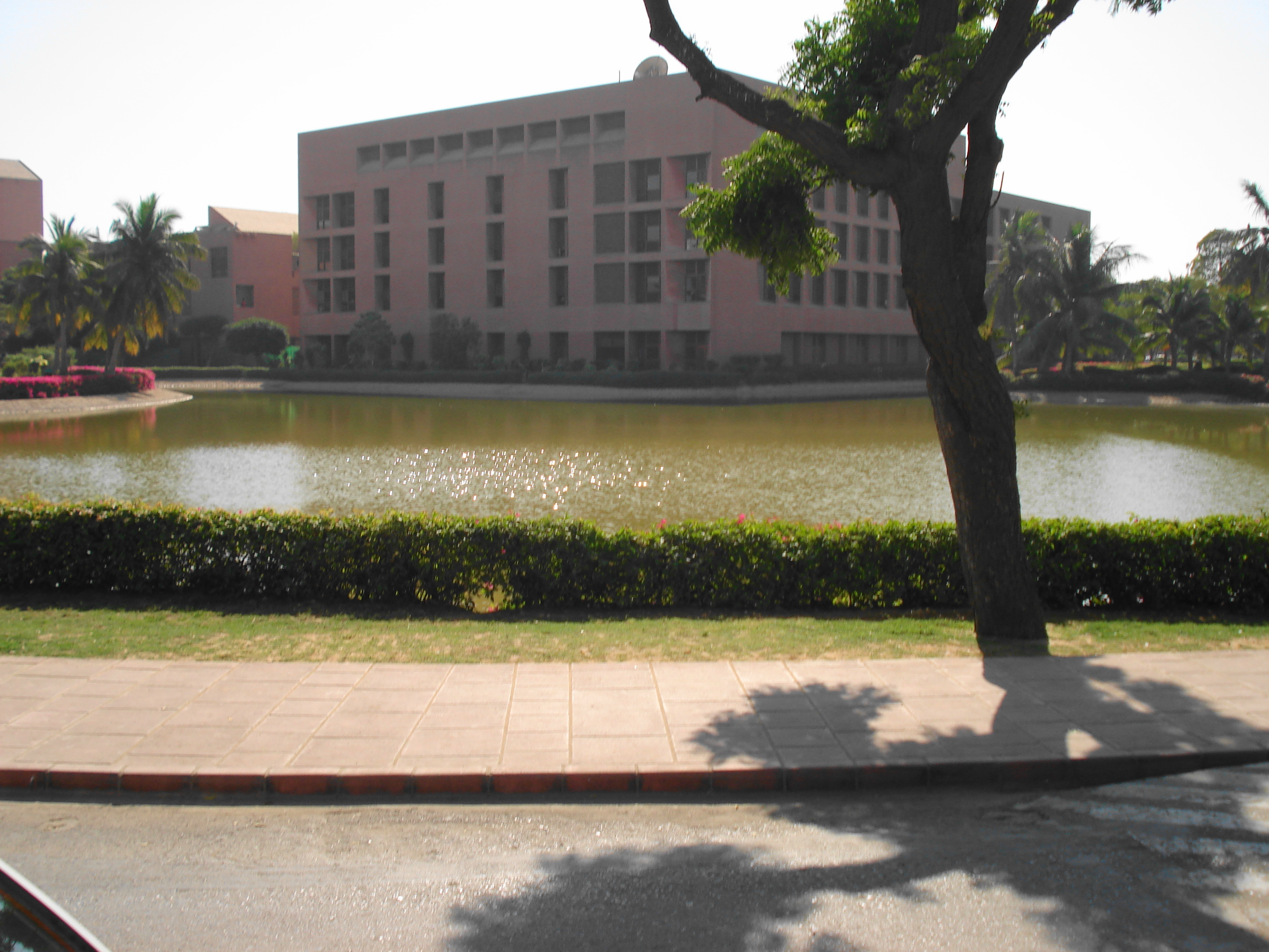 akuh